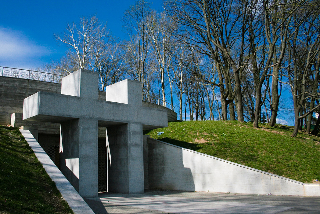 A columbarium of Soviet repression victims in Tuskulėnai, Vilnius